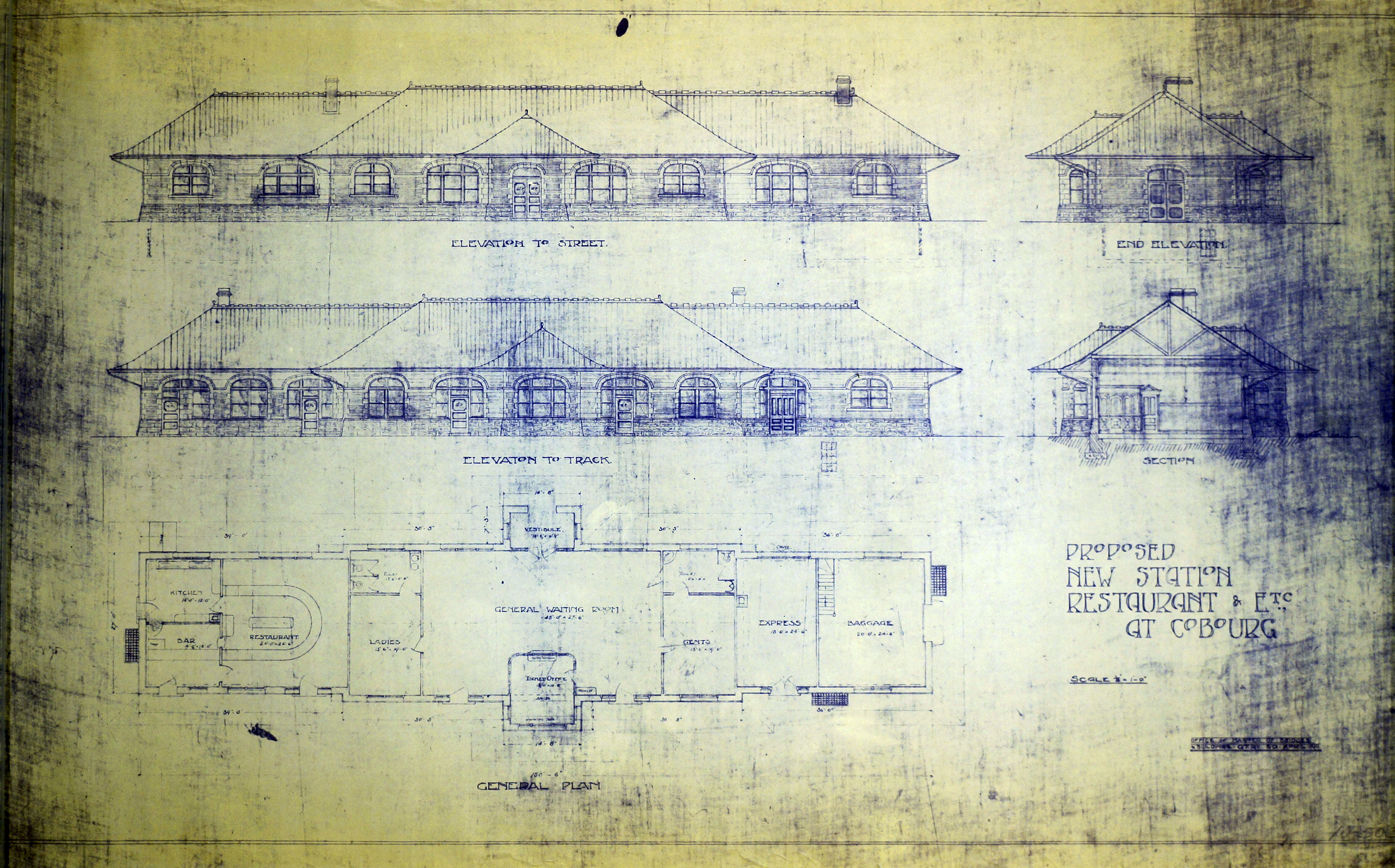 A plan of the proposed new railway station, restaurant etc. at Cobourg, Ontario. Drawn by John Dunlop Evans, Chief Engineer. Published by the Office of Master of Bridges and Buildings G.T.R. in April 1911.